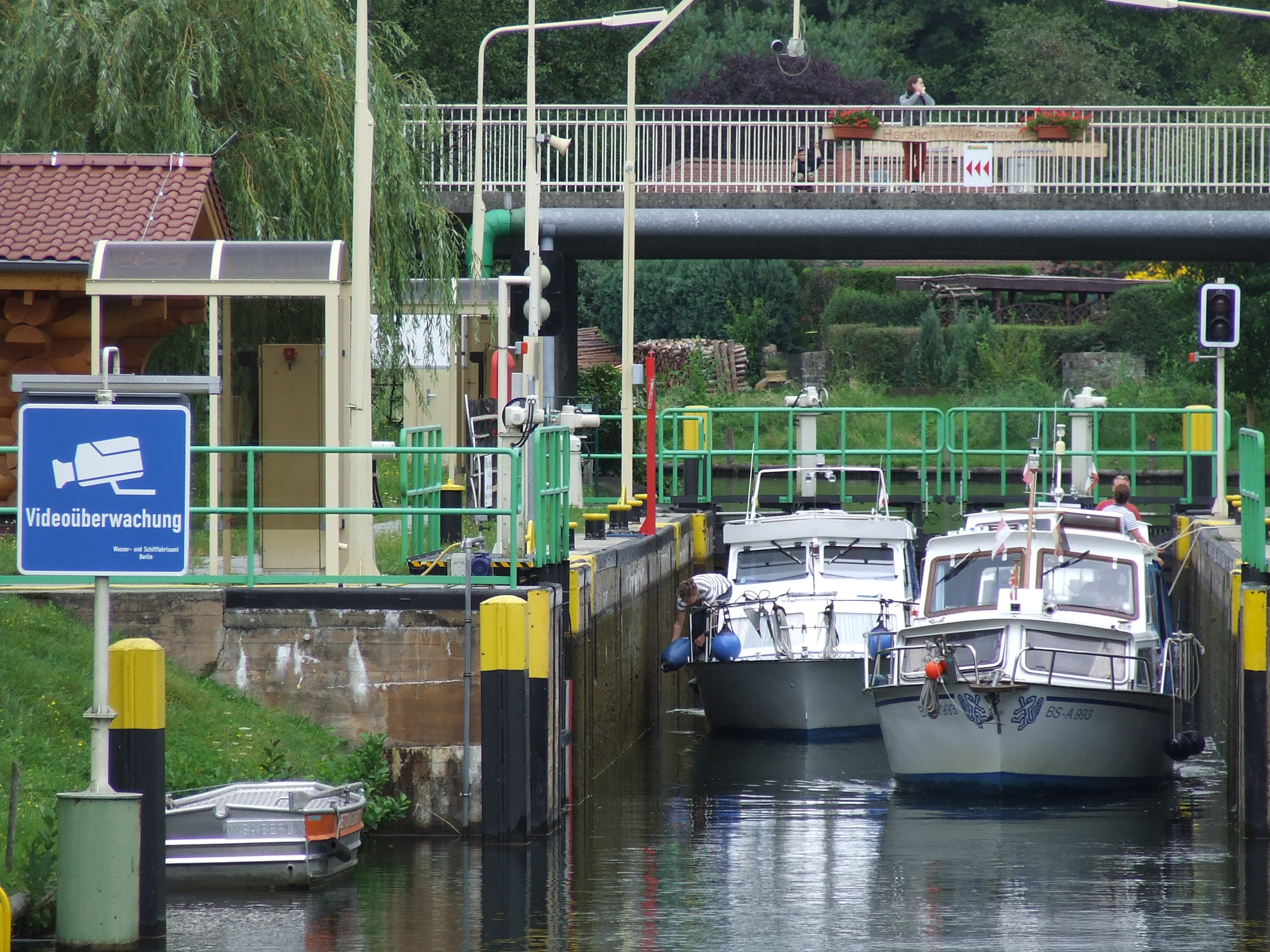 Lock named Wendisch-Rietz